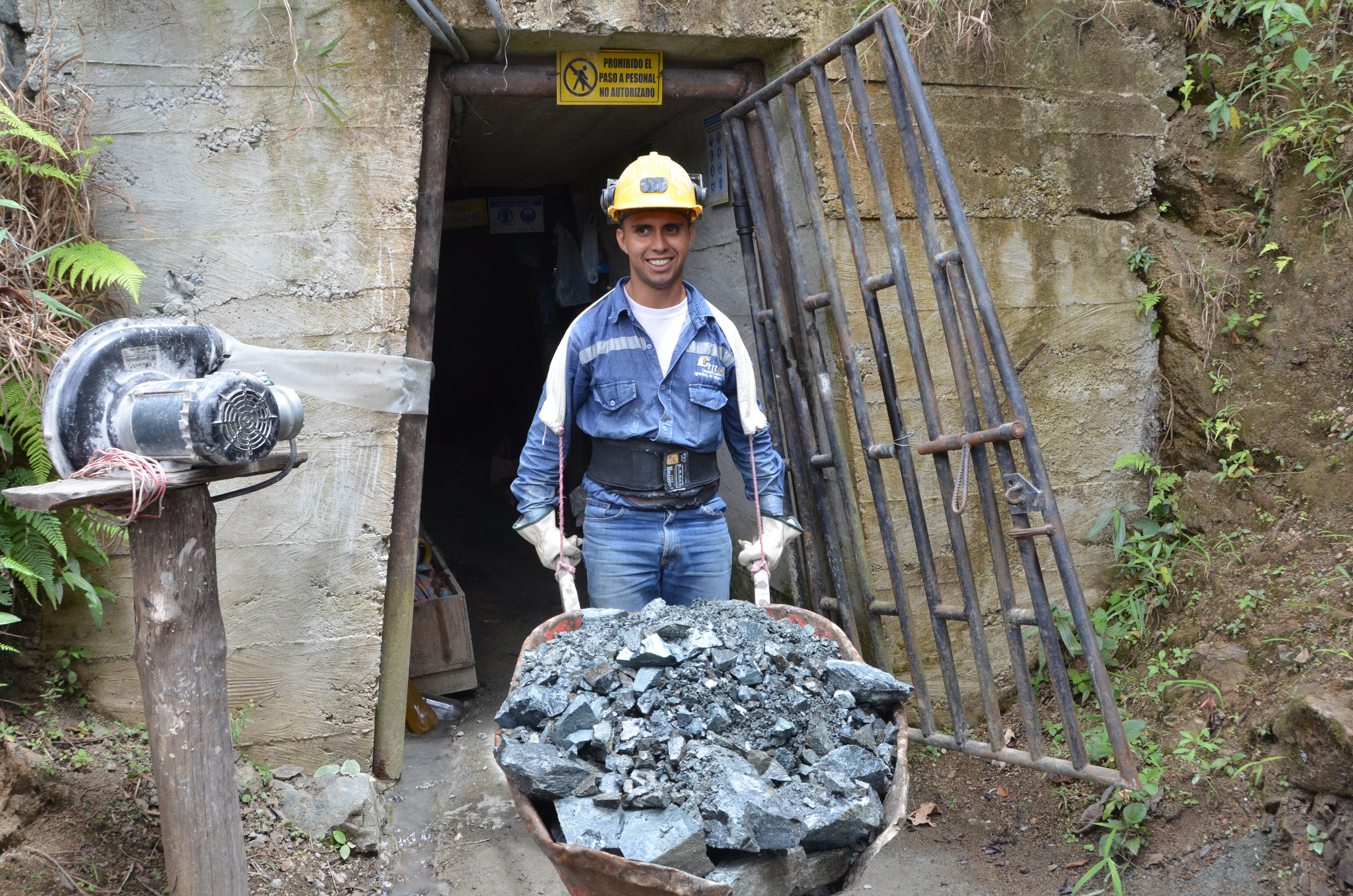 Miner carrying gold-bearing raw ore out of the shaft of a small-scale mine with responsible practices located in San Roque, Colombia